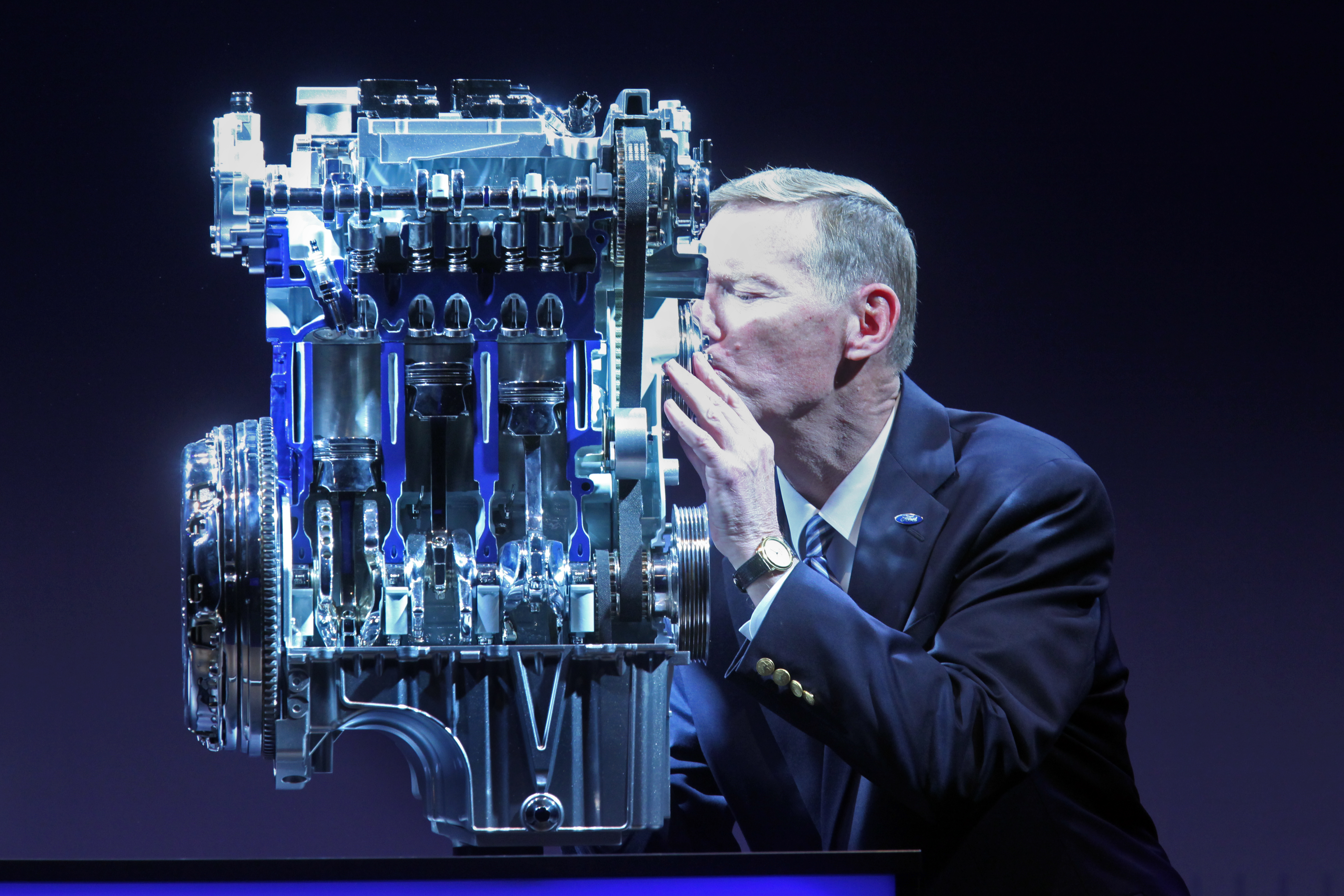 Then CEO of Ford Motor Company, Alan Mulally, kisses the inline 3-cylinder Ford EcoBoost 1.0 litre Fox engine.